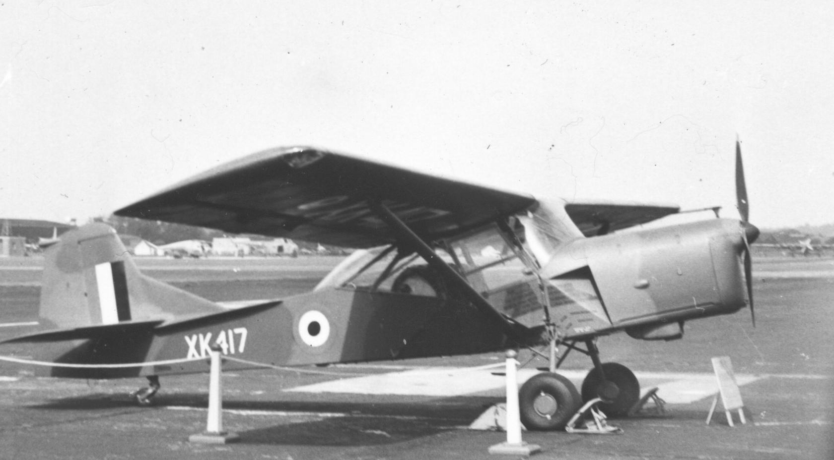 Auster AOP.9 XK417 exhibited at the Farnborough Airshow